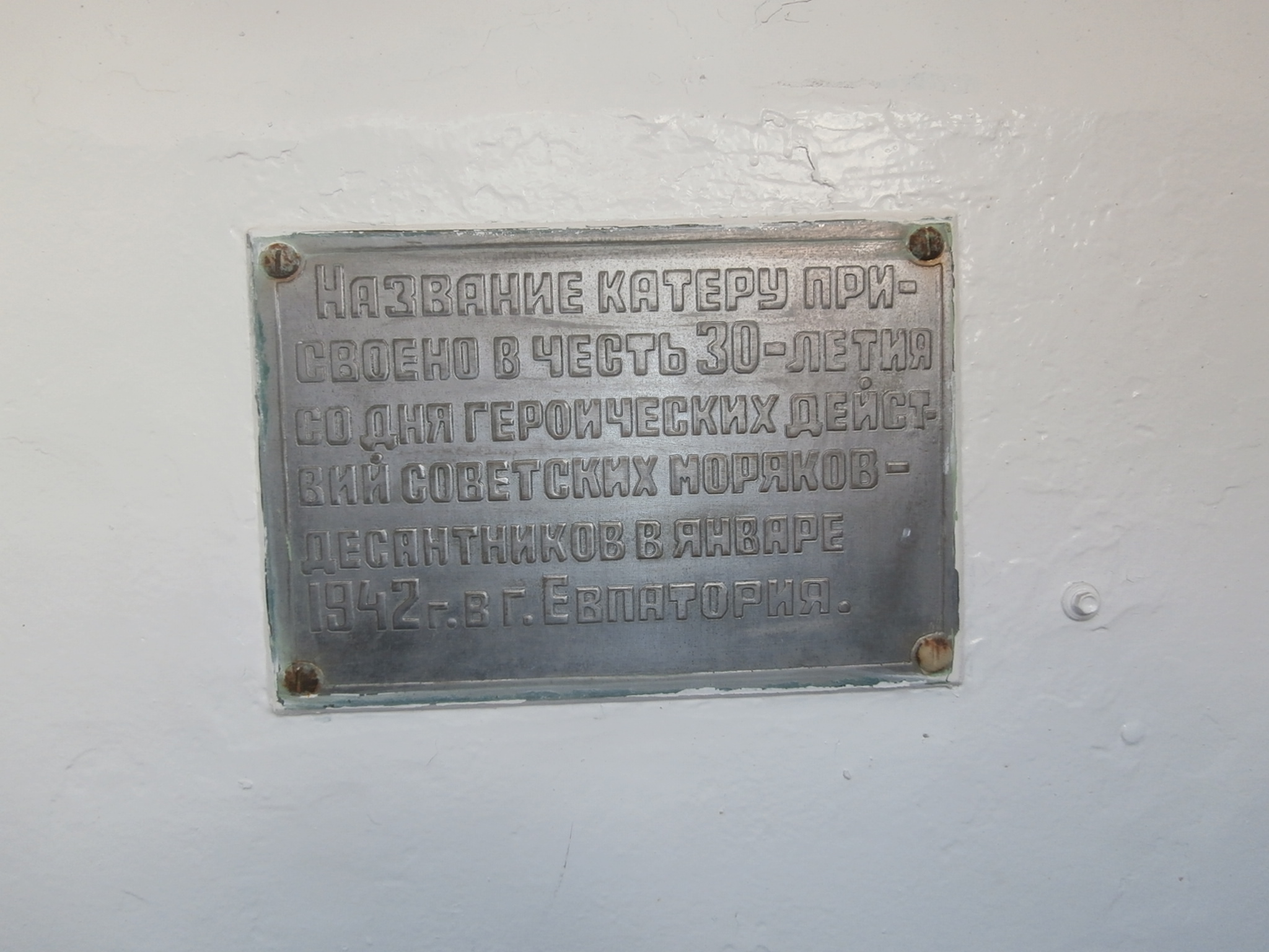 Vesta commemorative plaque, Tallinn 20 May 2016